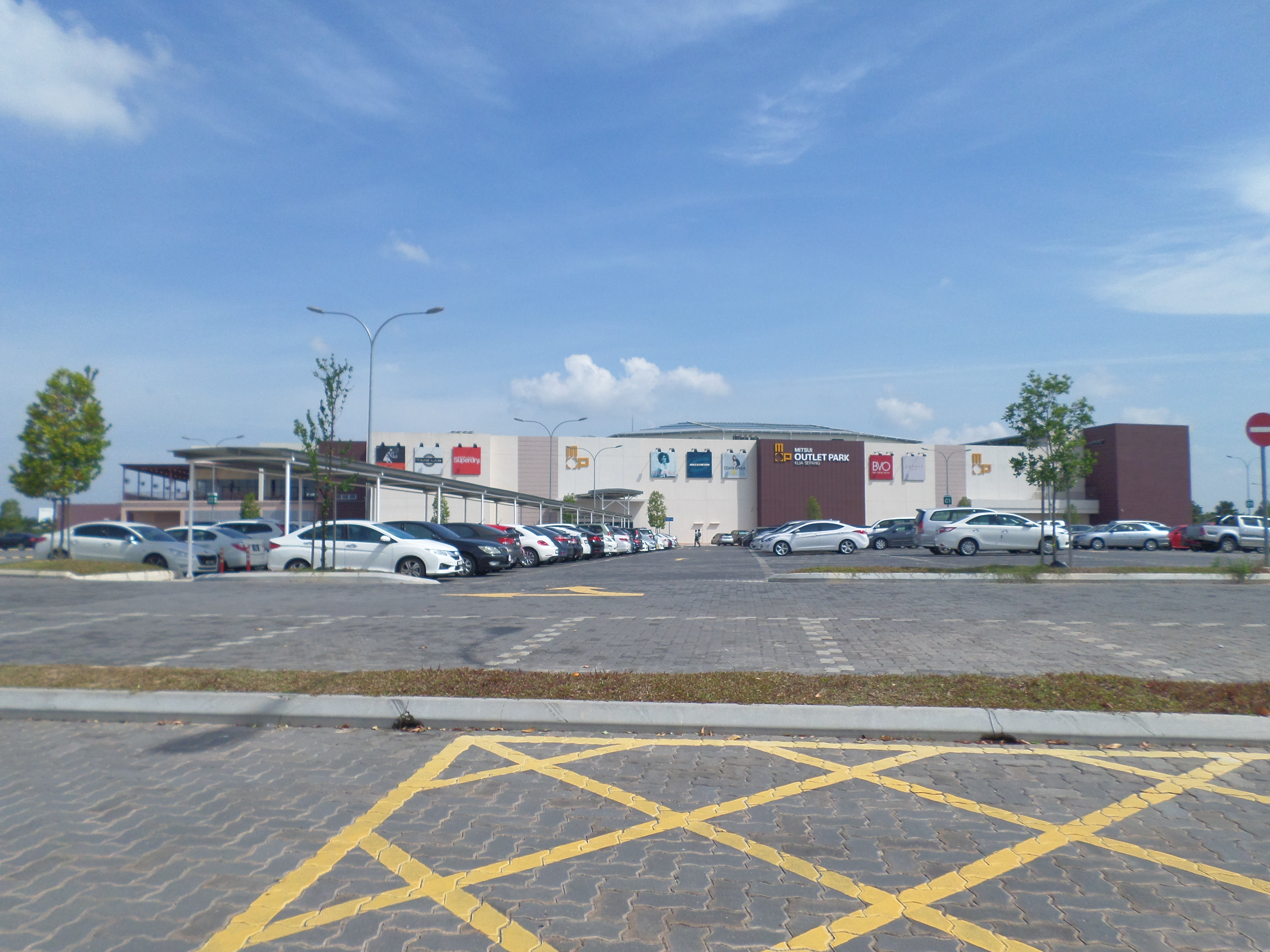 Mitsui Outlet Park KLIA Sepang, Sepang, Selangor, Malaysia